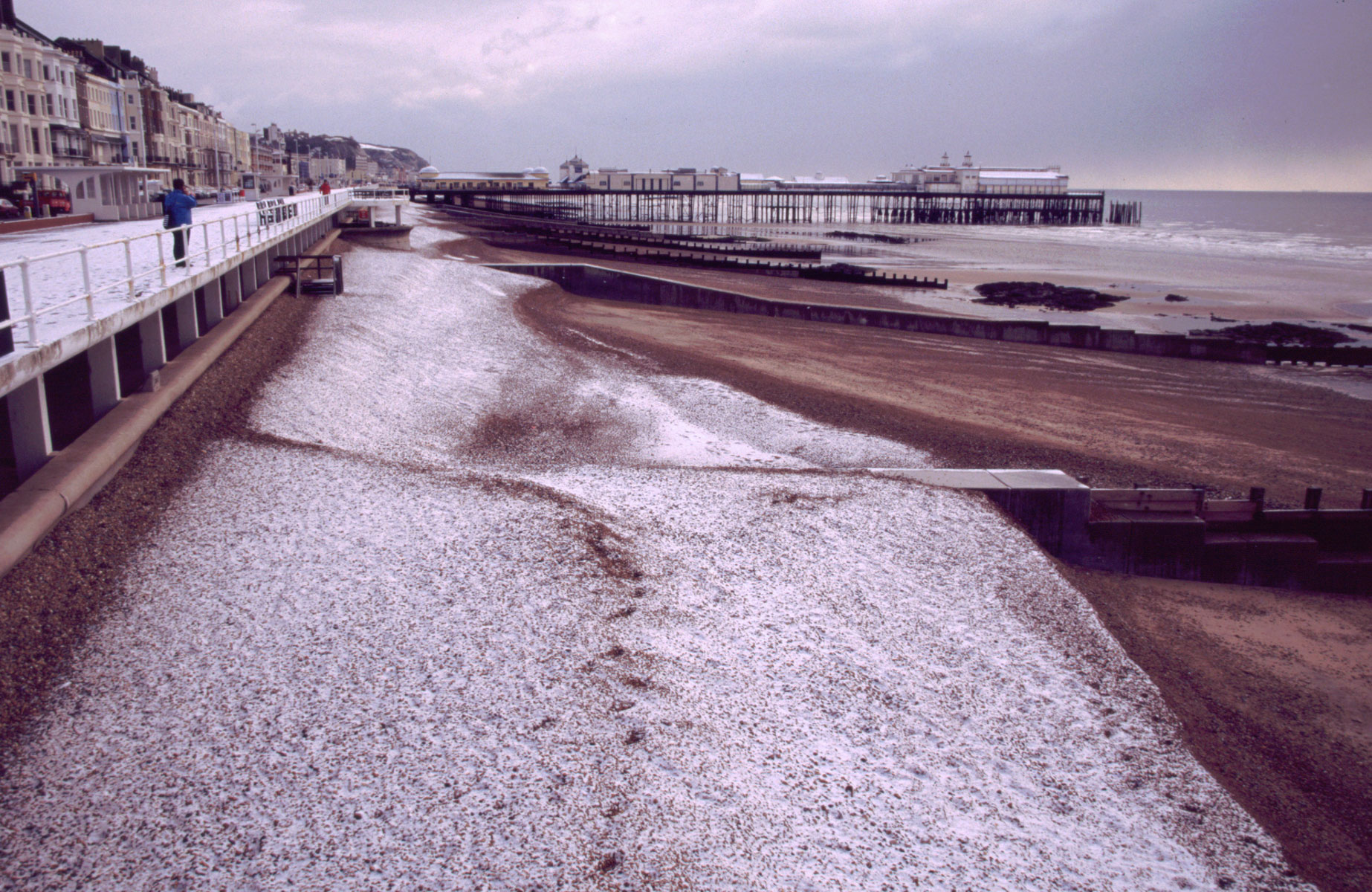 Hastings Pier and beach in the Winter